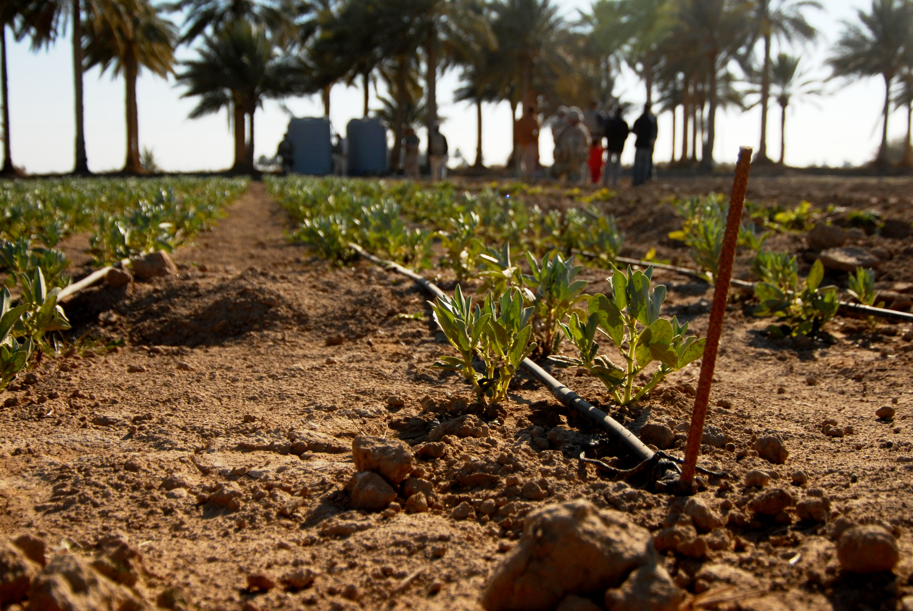 An field irrigation project in Muehlah, Iraq, December 18th, 2008